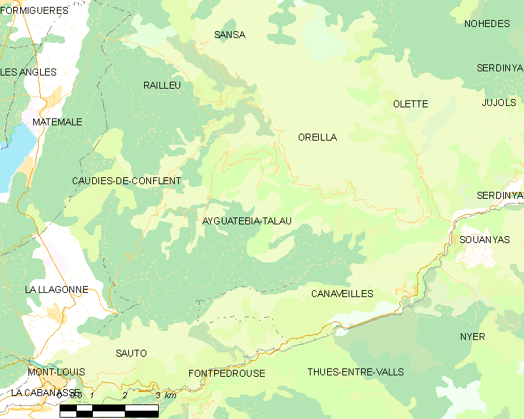 Map of French municipality